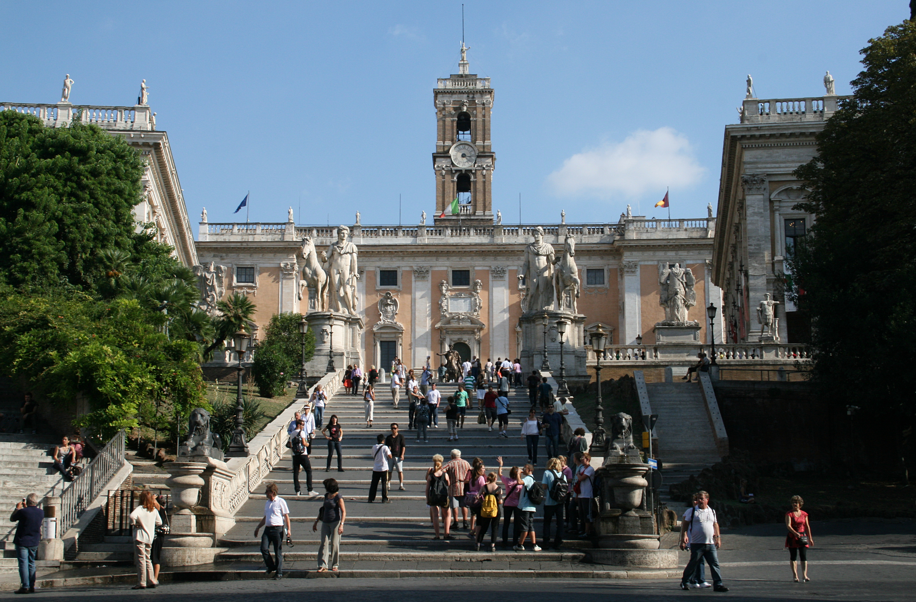 The Cordonata, the Dioscuri, and the Palazzo Senatori in Rome.